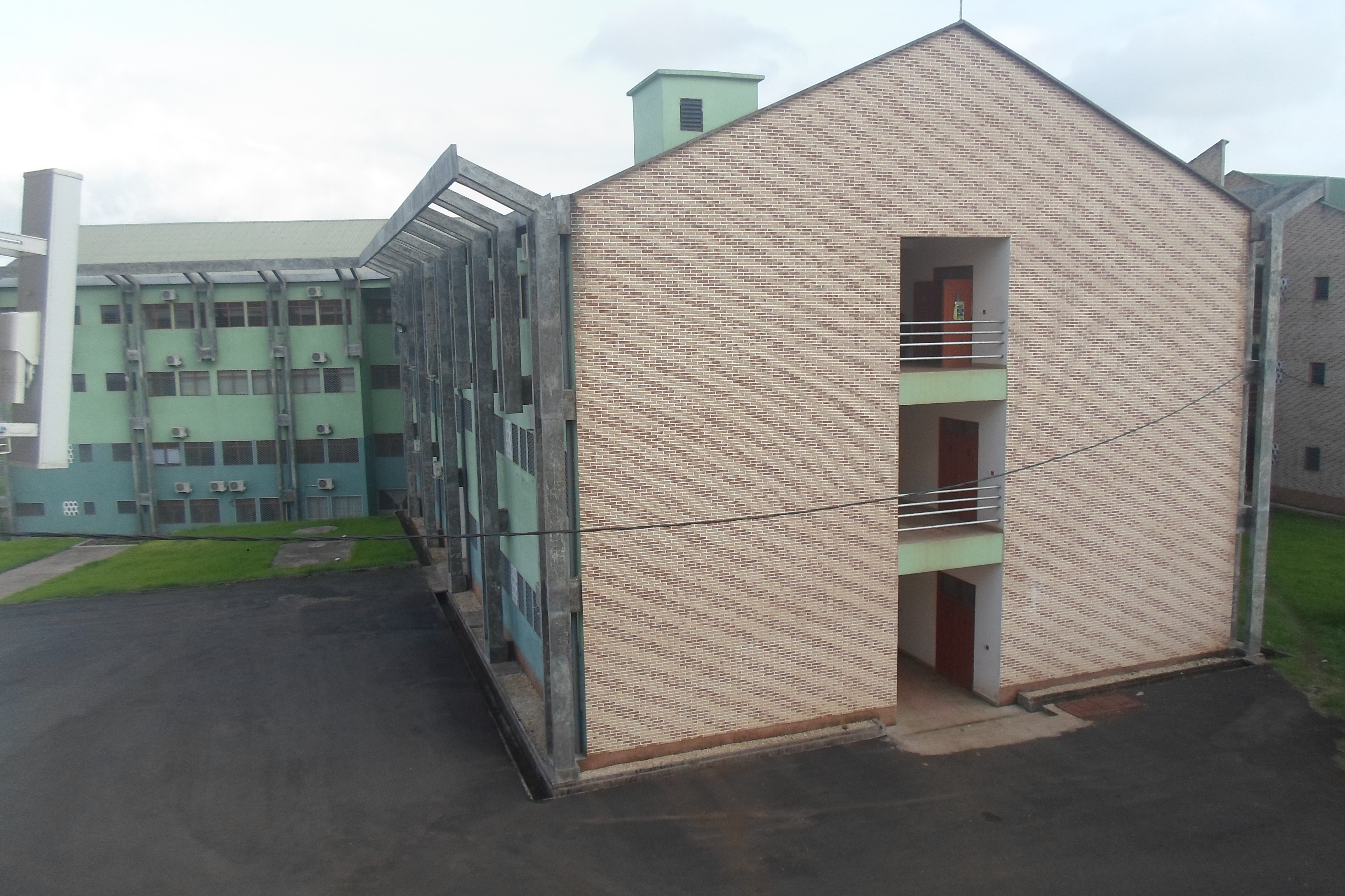 A partial view of the campus of the faculty of health science, University of Buea Cameroon.